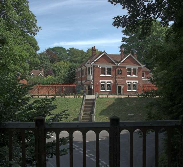 Pub and road junction at Brockbridge nr Droxford. Seen looking E from embankment of Meon Valley Trail (disused railway line). This pub, The Hurdles, appears to be brand new and was up for sale as "pub restaurant development opportunity" at time of photo.